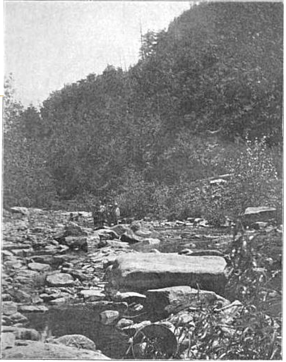 An 1899 photograph of Harveys Creek near Tilbury Knob